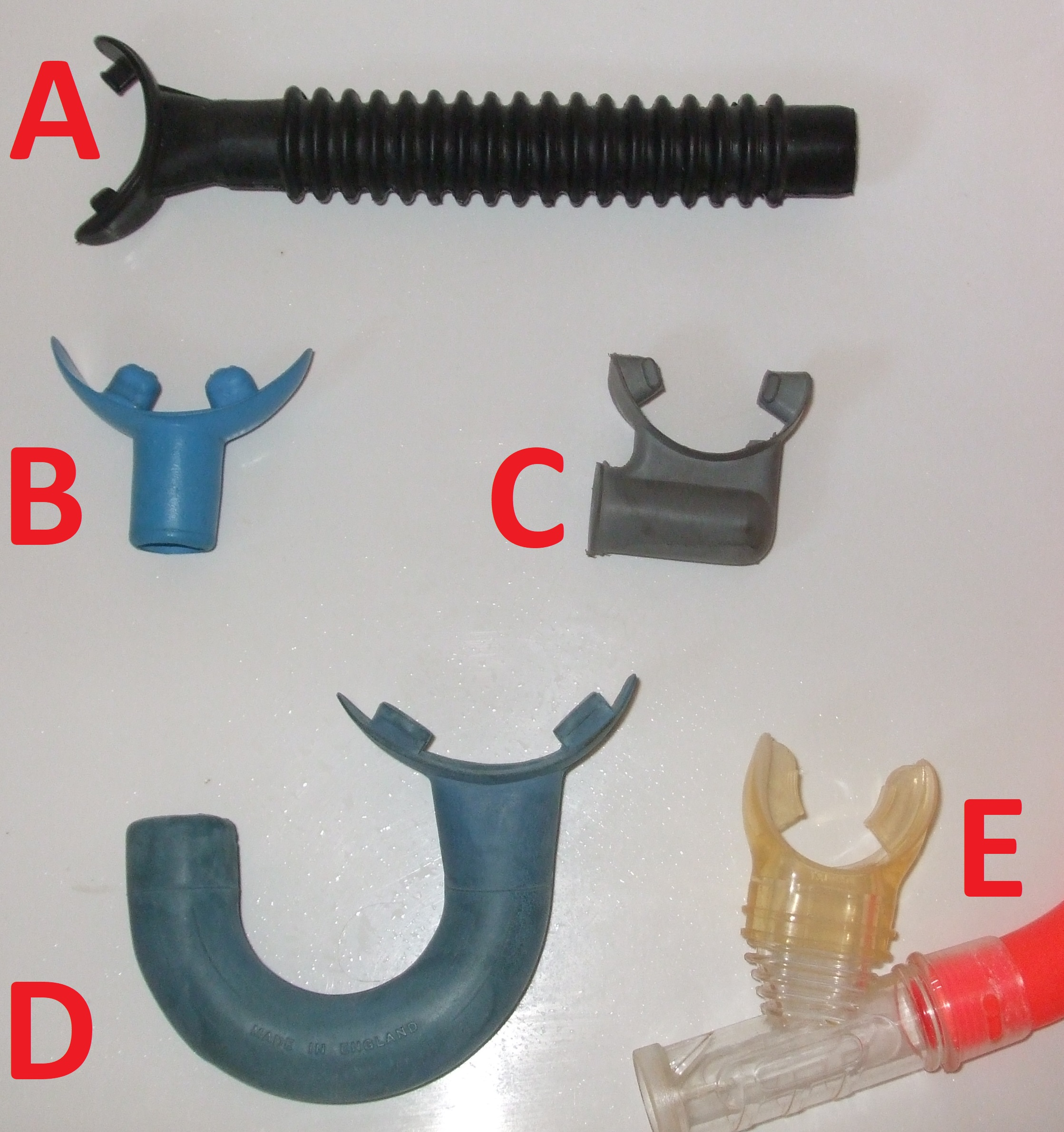 Five snorkel mouthpiece types are illustrated. Type A is a flanged mouthpiece with twin lugs at the end of a length of flexible corrugated hose designed for a flex-hose snorkel. Type B is a flanged mouthpiece with twin lugs at the end of a short neck designed for a J-shaped snorkel. Type C is a flanged mouthpiece with twin lugs positioned at a right angle and designed for an L-shaped snorkel. Type D is a flanged mouthpiece with twin lugs at the end of a flexible U-shaped elbow designed to be combined with a straight barrel to create a J-shaped snorkel. Type E is a flanged mouthpiece with twin bite plates offset at an angle from a contoured snorkel.